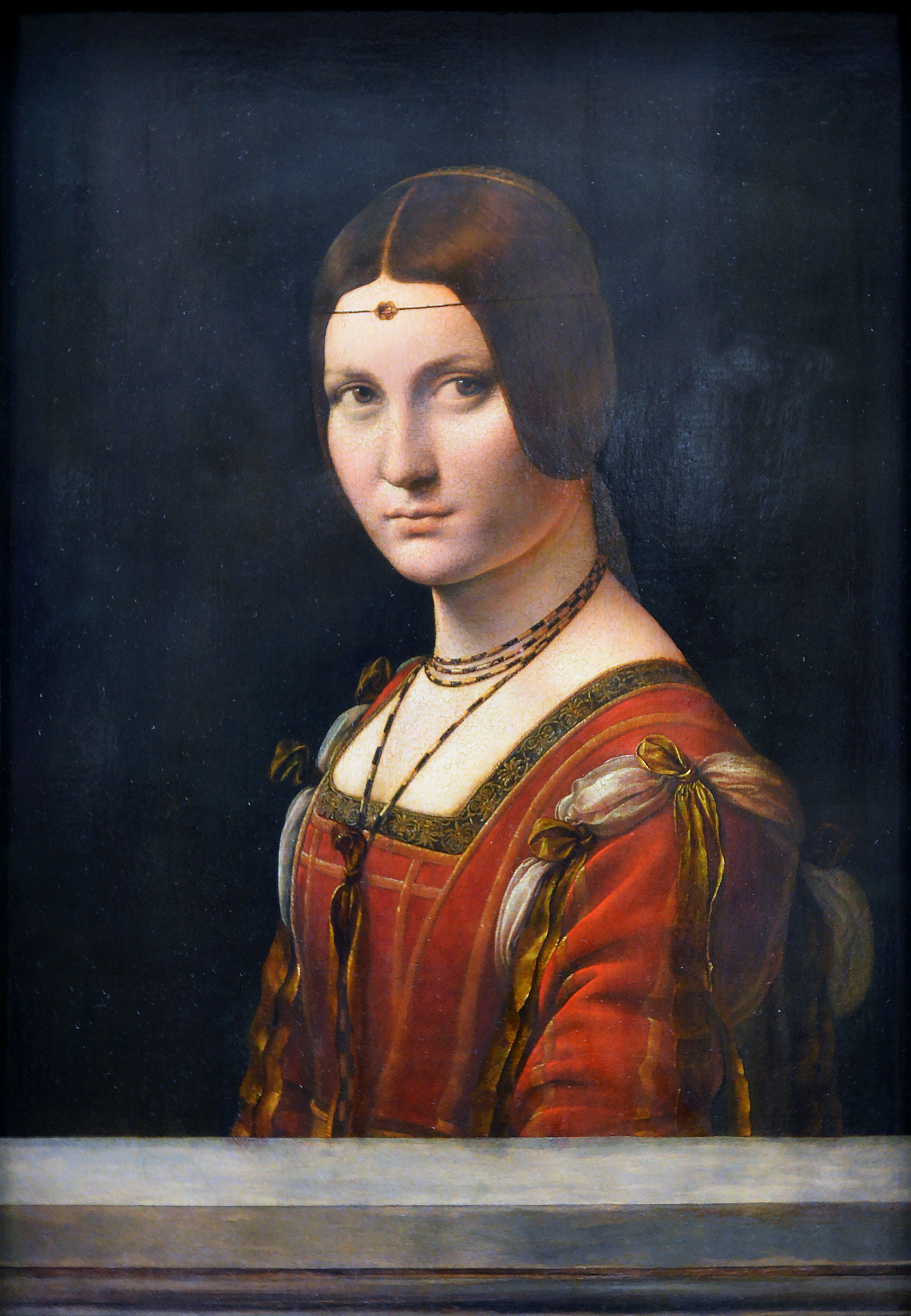 La belle ferronnière,Leonardo da Vinci - Louvre